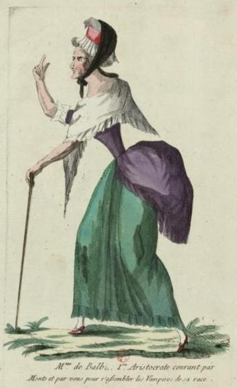 Anne de Caumont La Force, countess of Balbi (b.1753 - d.1842), mistress of the count of Provence (later Louis XVIII)